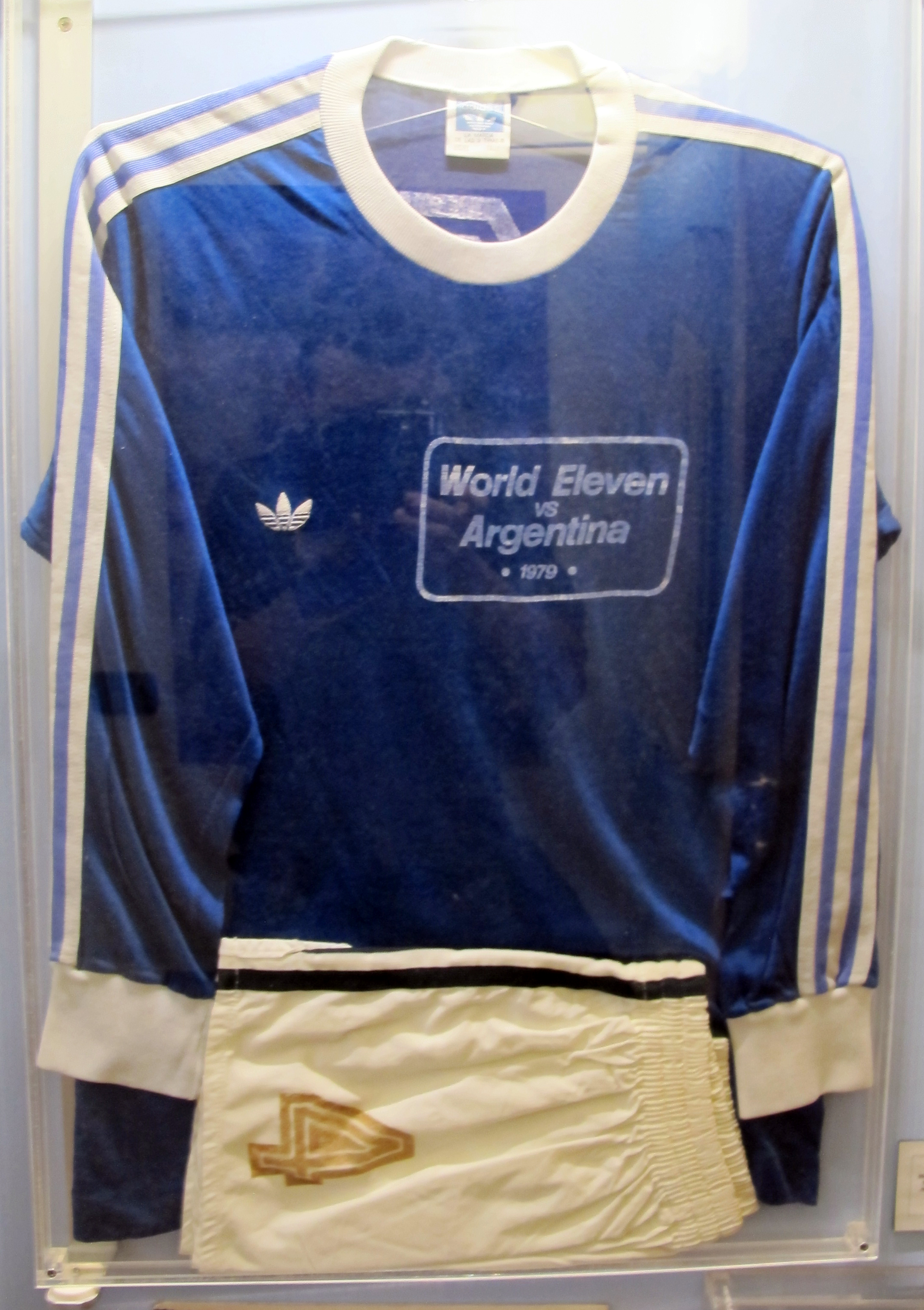 Collections of the Museo del Calcio (Florence)